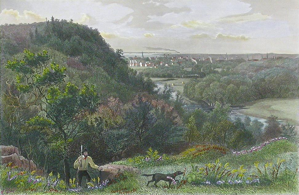 East Rock, New Haven, a steel engraving from a study by Casimir Clayton Griswold (1834-1918), engraved by Samuel Valentine Hunt (1803-1893) and published in Picturesque America, D. Appleton & Company, New York, New York 1872. This shows the Mill River.